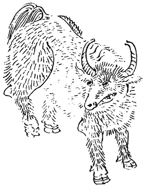 qióngjī (窮奇) from the Sengaikyōzon (山海経存, Shan Hai Jing)